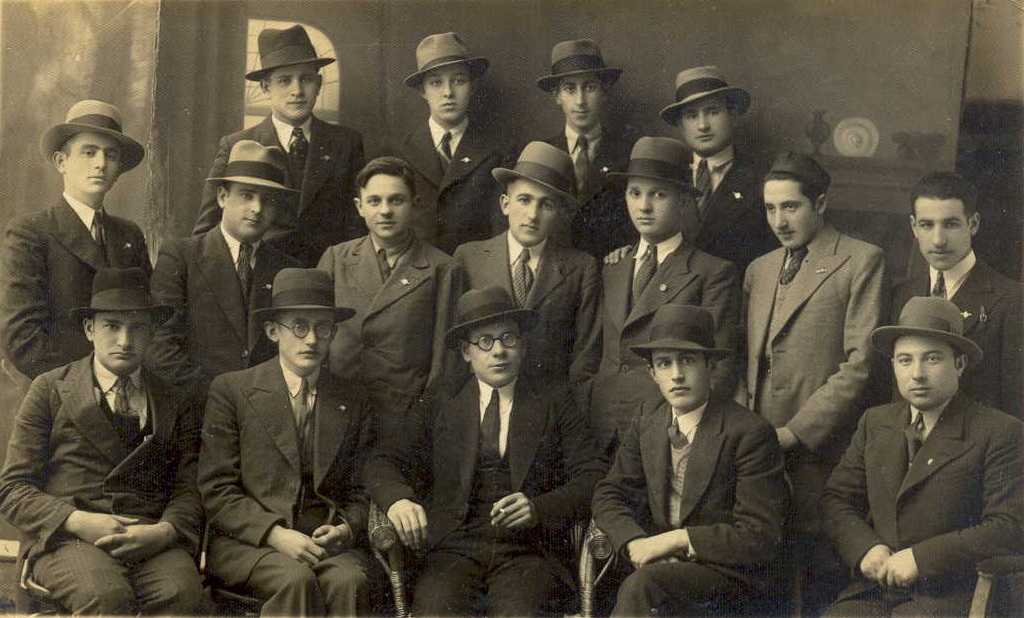 A group of Telz Yeshiva students, Purim 1936